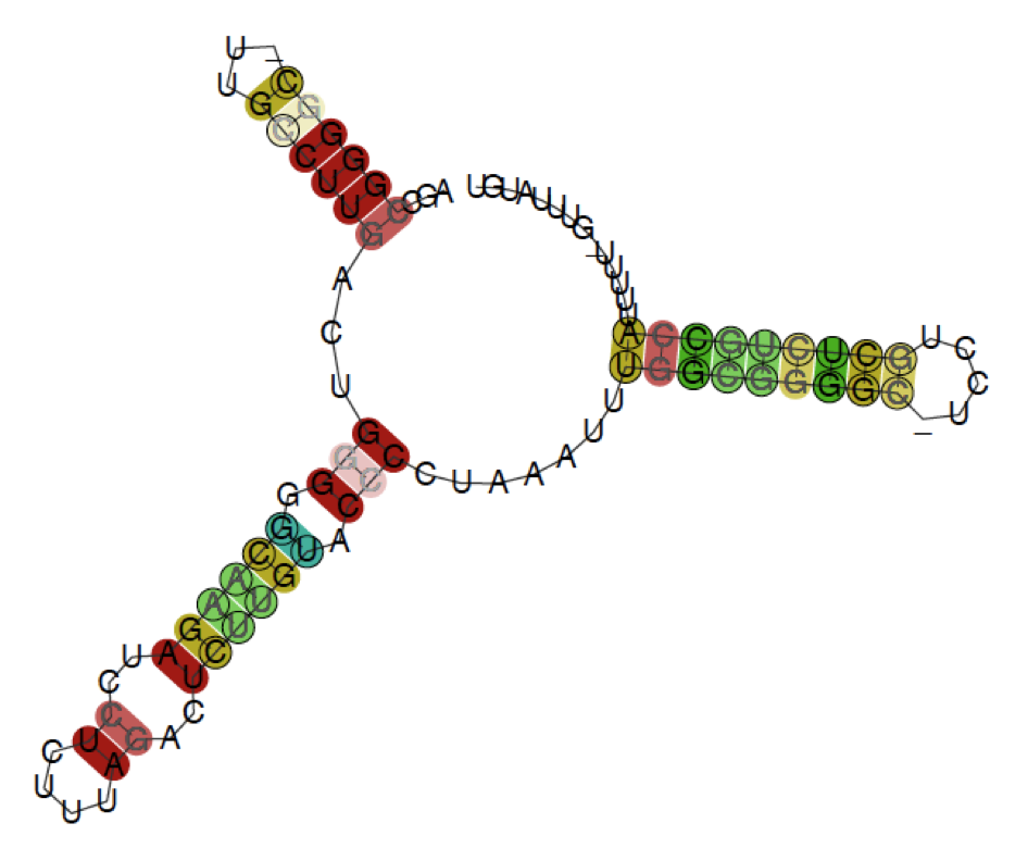 Putative structure of the Pseudomonas_rpsL-leader, obtained by RNAalifold